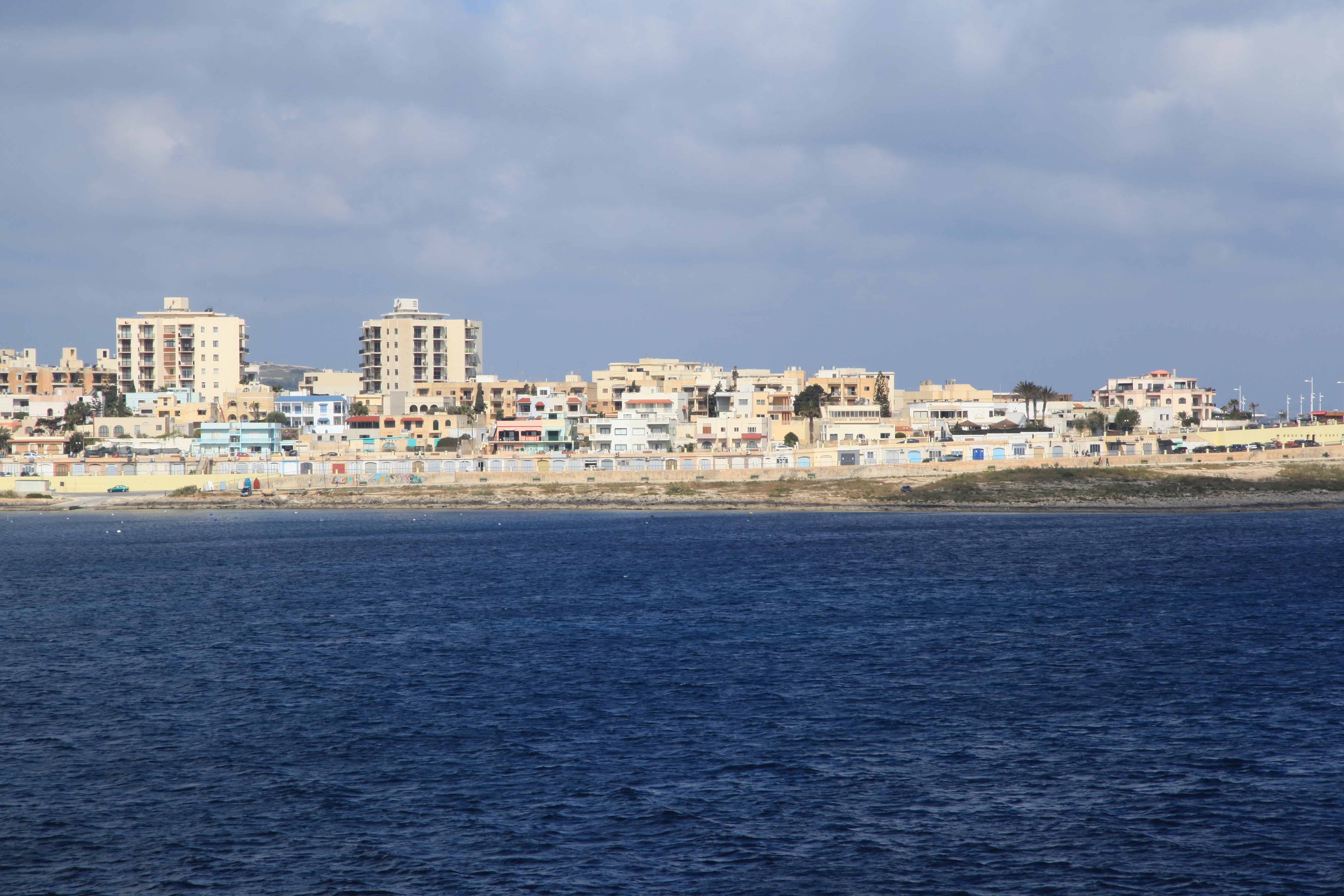 Views from Ras il-Għallis in Naxxar to St. Paul's Bay, Malta